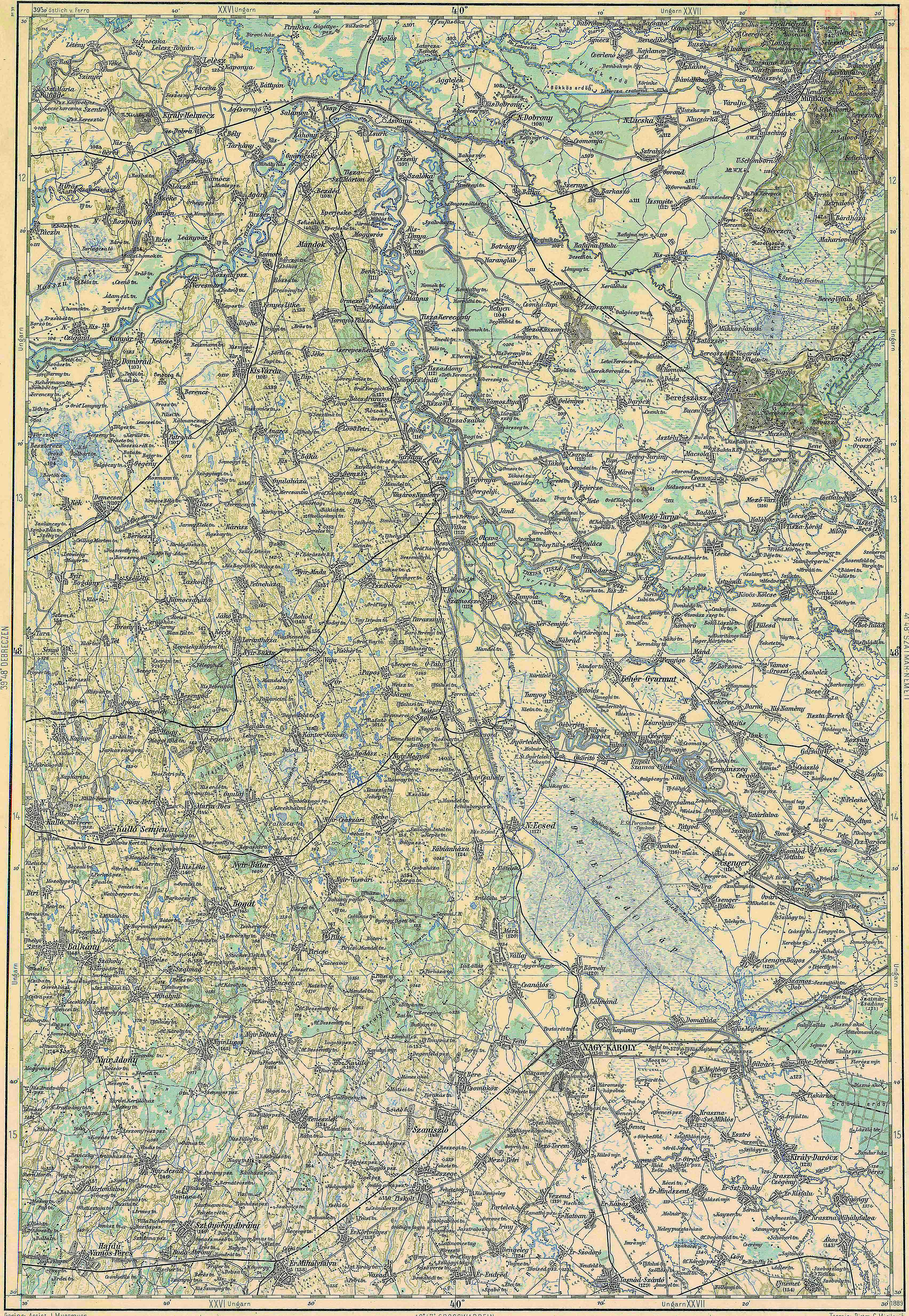 3rd Military Mapping Survey of Austria-Hungary - Munkács